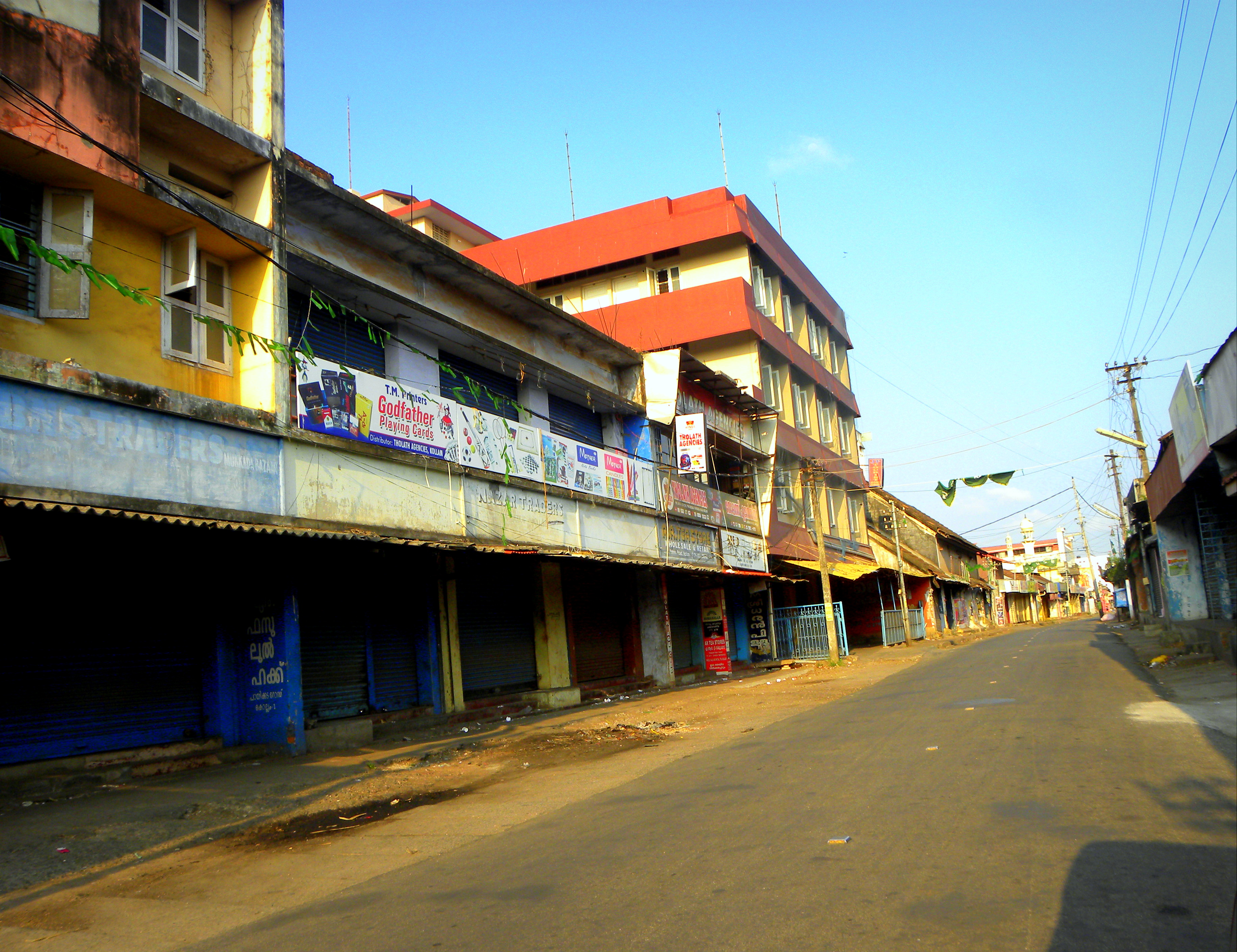 Paikkada Road - A road towards the old Dutch Quilon's market and business centres. Now a part of Downtown Kollam